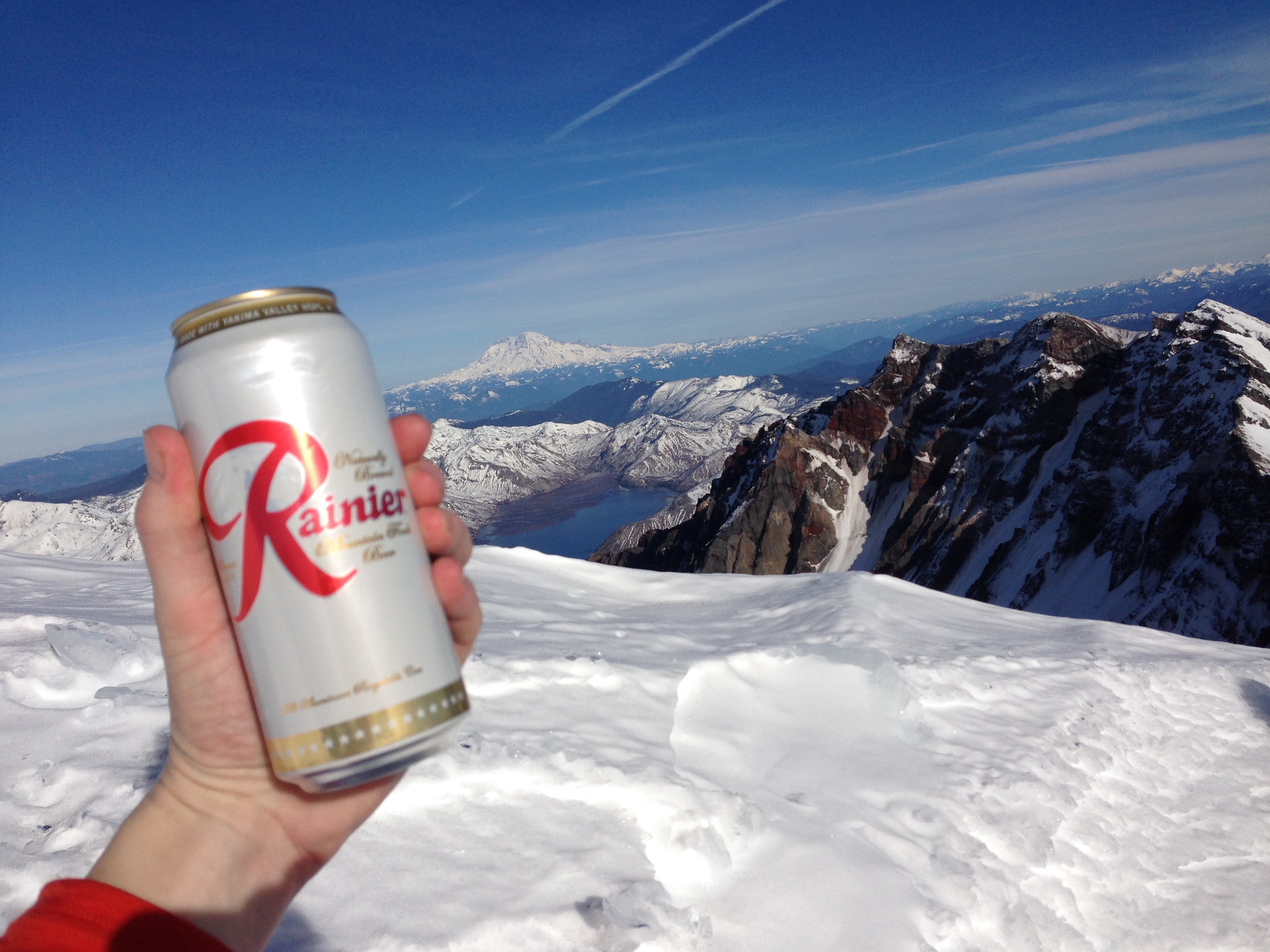 Rainier Beer Can on the summit of Mount Saint Helens with Mount Rainier in the background.